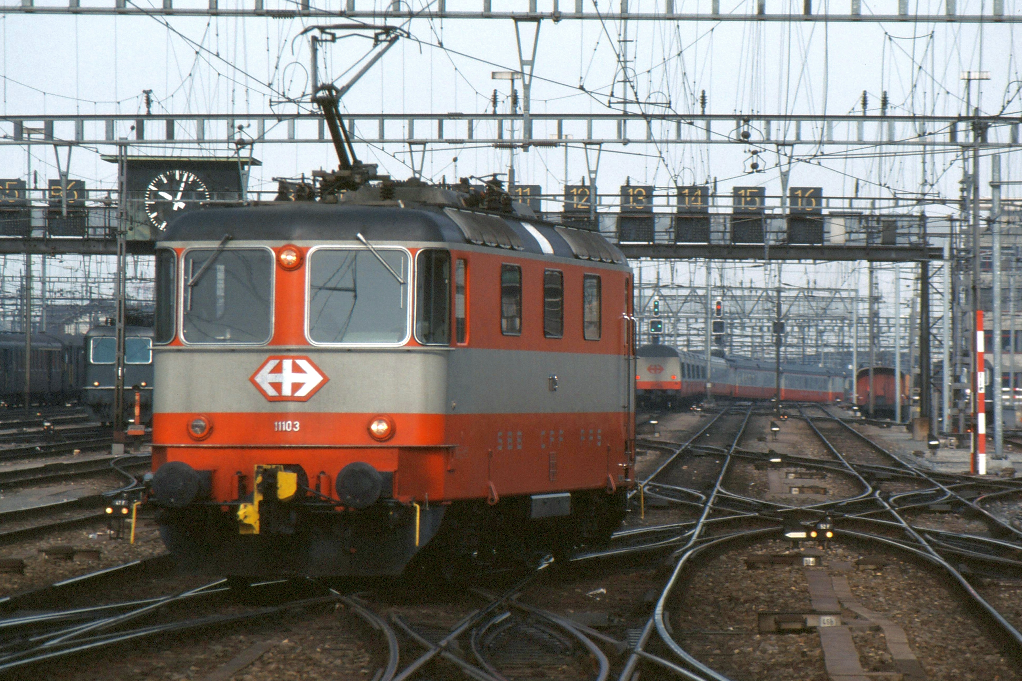 Swissexpress and Re 4/4 II